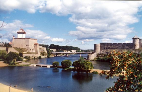 Fortress of Narva (to the left) overlooking the Russian fortress of Ivangorod (to the right).